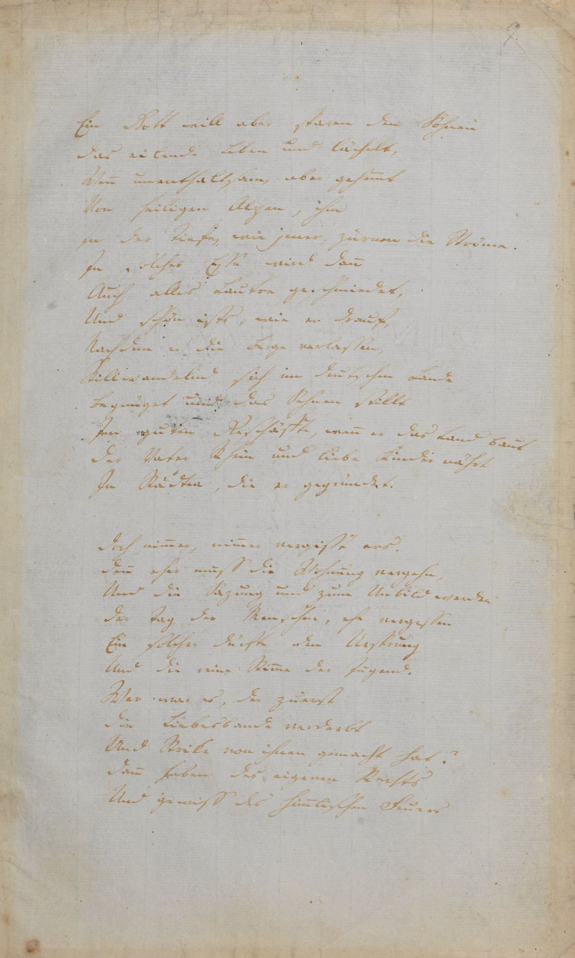 Manuscript of Friedrich Hölderlins poem "Der Rhein", Württembergische Landesbibliothek, page 5